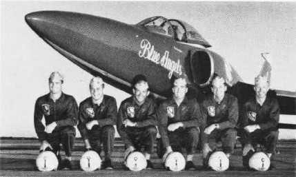 The U.S. Navy flight demonstration team Blue Angels 1961 team in front of one of their Grumman F11F-1 Tiger. From left to right: Lt. Dan MacIntyre, Marine Capt. Doug McCougher, Cdr. Zeb Knott (team leader), Lt Bill Rennie, LCdr. Ken Wallace, and Lt. Lou Charham.